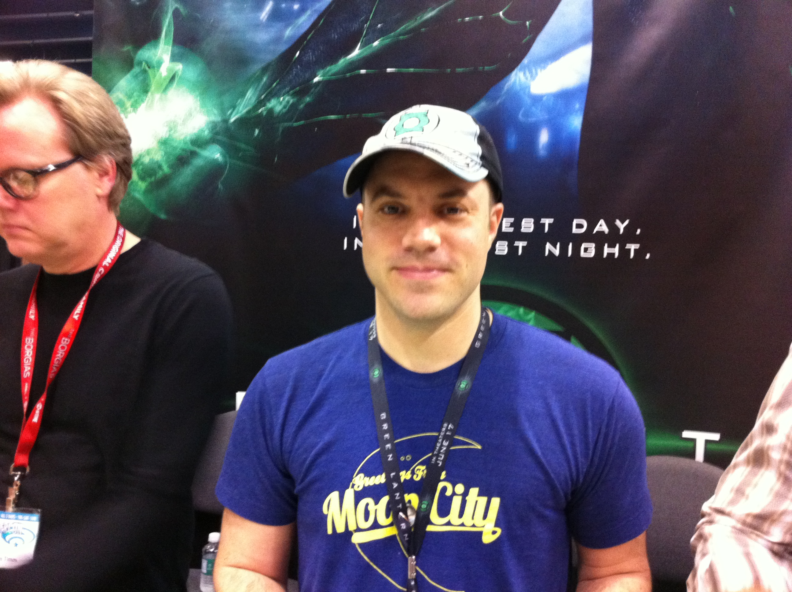 Geoff Johns, April 2, 2011 in Financial District South, San Francisco, CA, US Wondercon